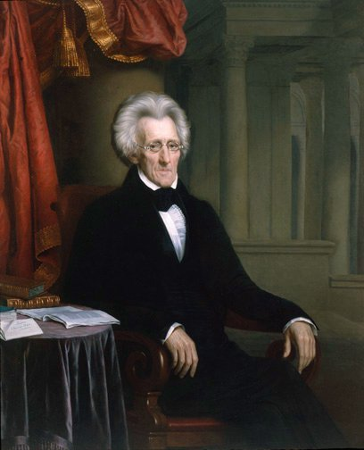 Painted during Jackson's return to New Orleans marking the 25th anniversary of his victory in the Battle of New Orleans.